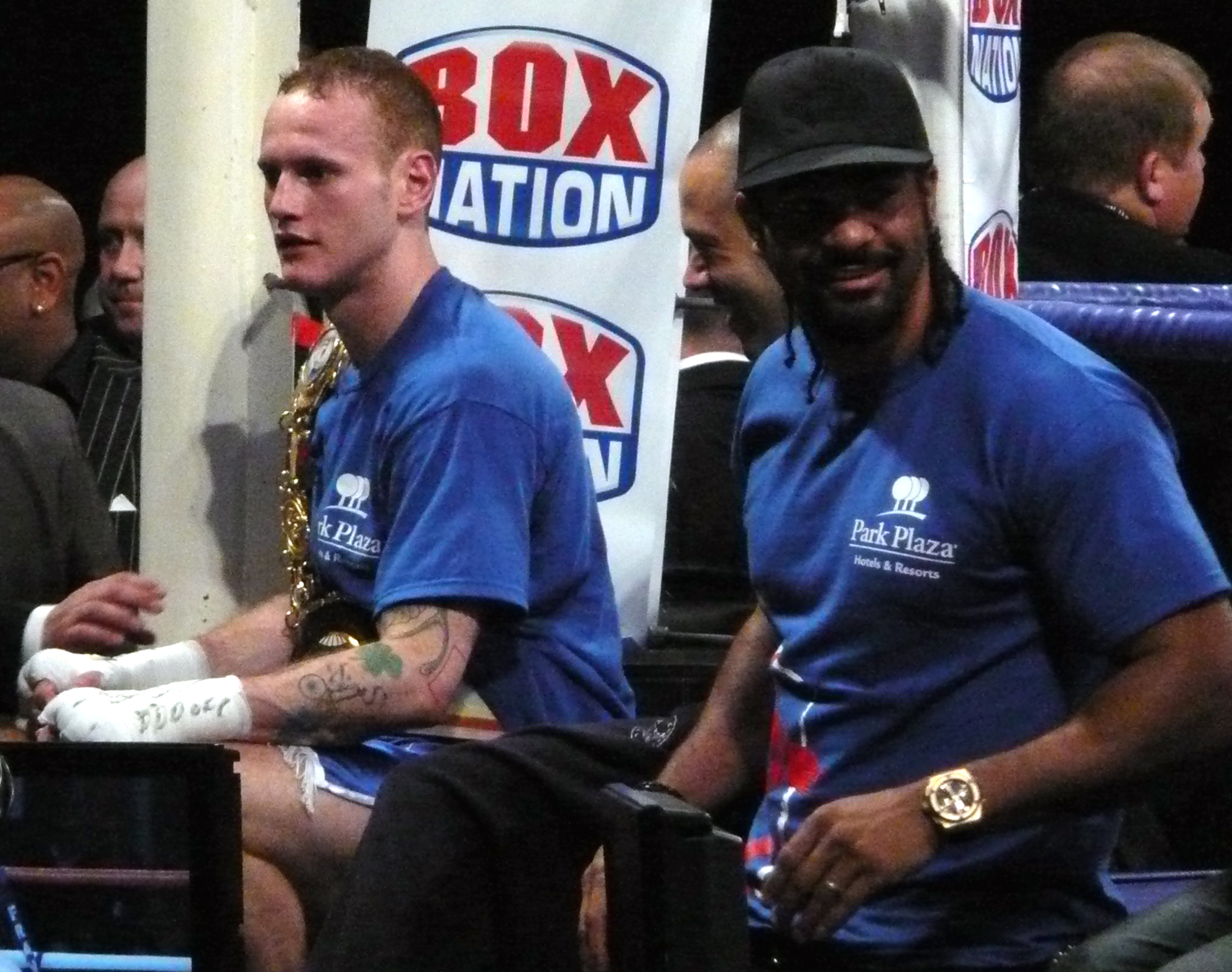 George Groves (left), Adam Booth (centre) and David Haye (right) at Wembley Arena, conducting post-fights interviews with BoxNation.